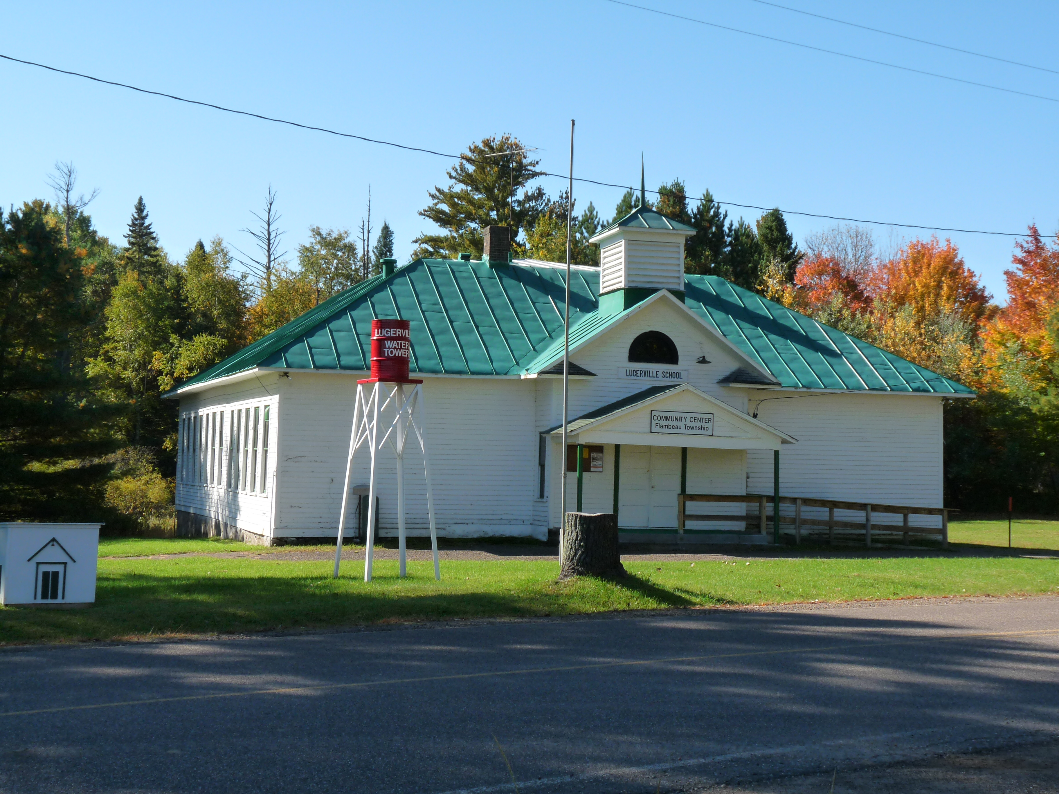 The old school in Lugerville (northern Wisconsin) now serves as the community center.